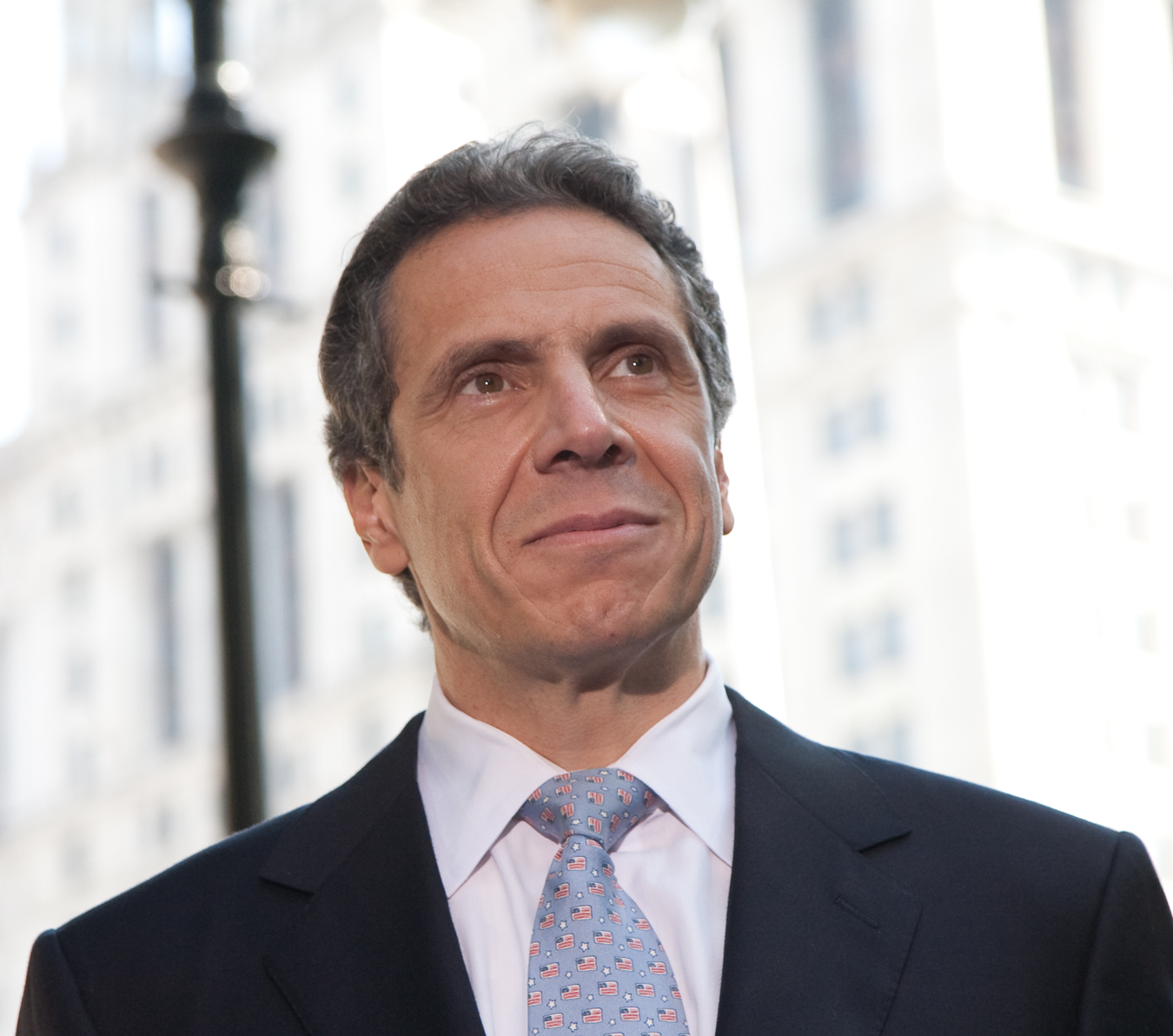 Andrew Cuomo, 11th United States Secretary of Housing and Urban Development and 64th New York State Attorney General as a candidate for Governor of New York, outside of City Hall, little American flags on his tie.